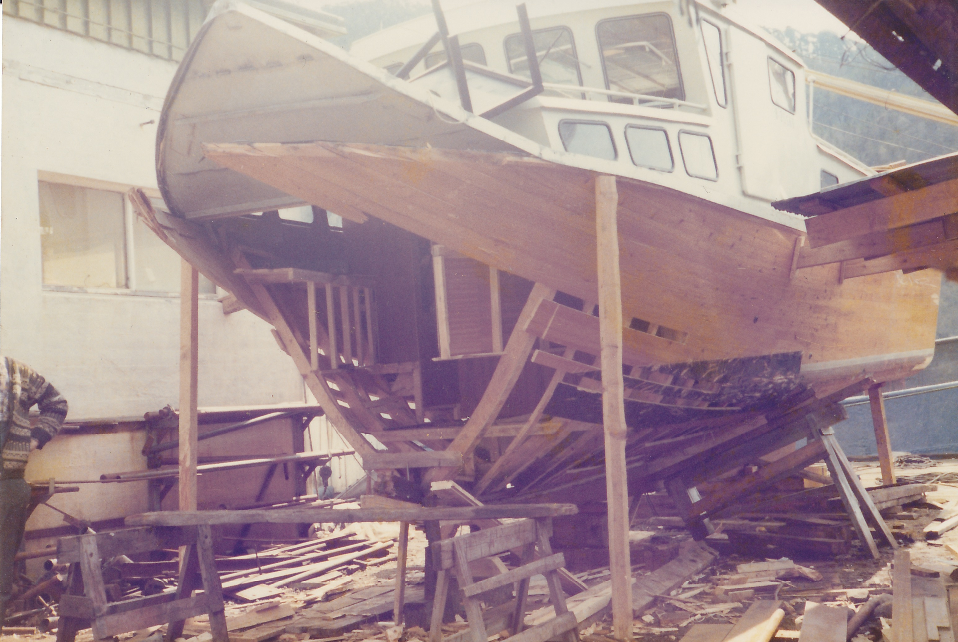 Reparasjon av plattgatter